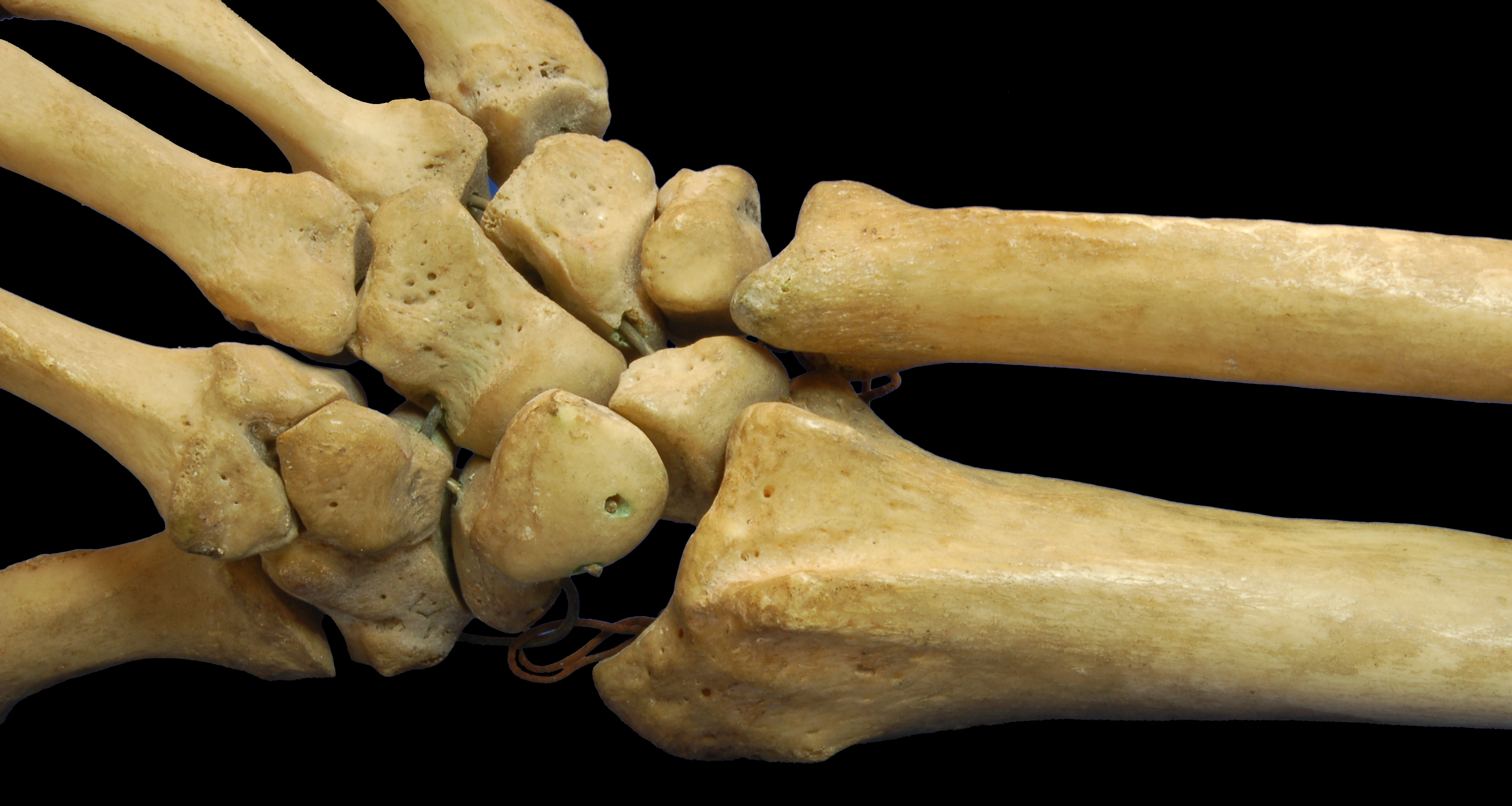 Photograph of right posterior human distal radius and ulna. Keywords: Human bones, bones, wrist, radius, ulna.